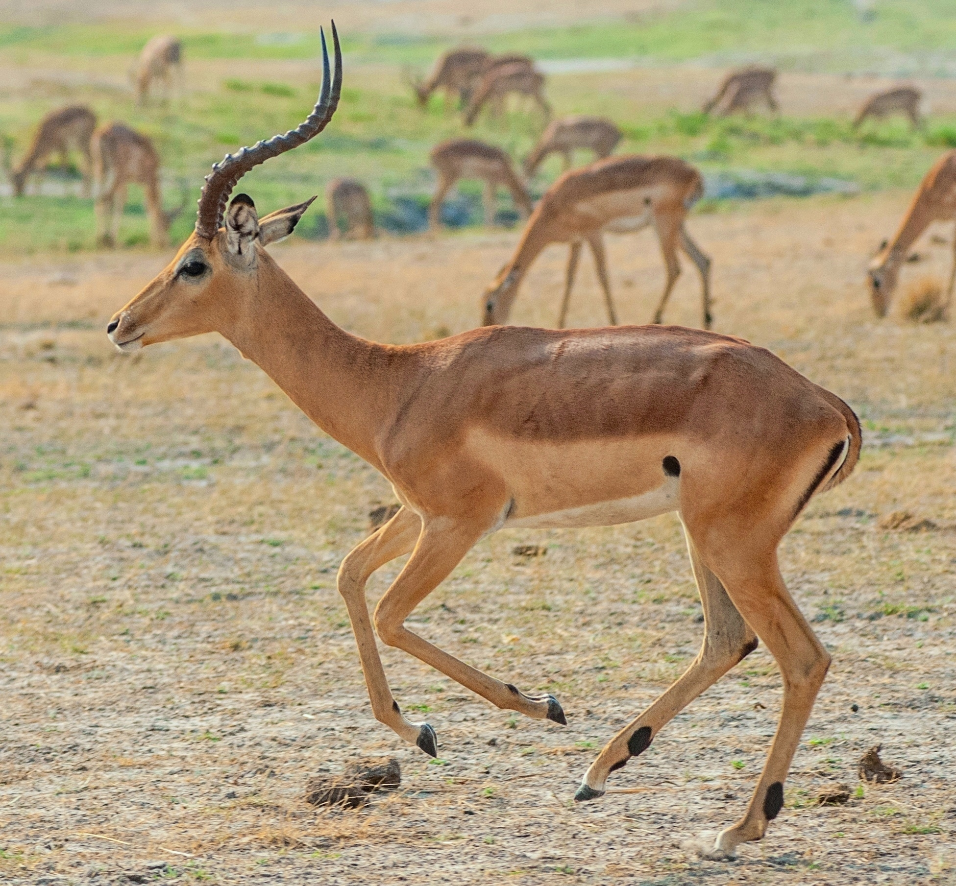 Impala ram in northern Botswana. The name impala comes from the Zulu language meaning "gazelle".